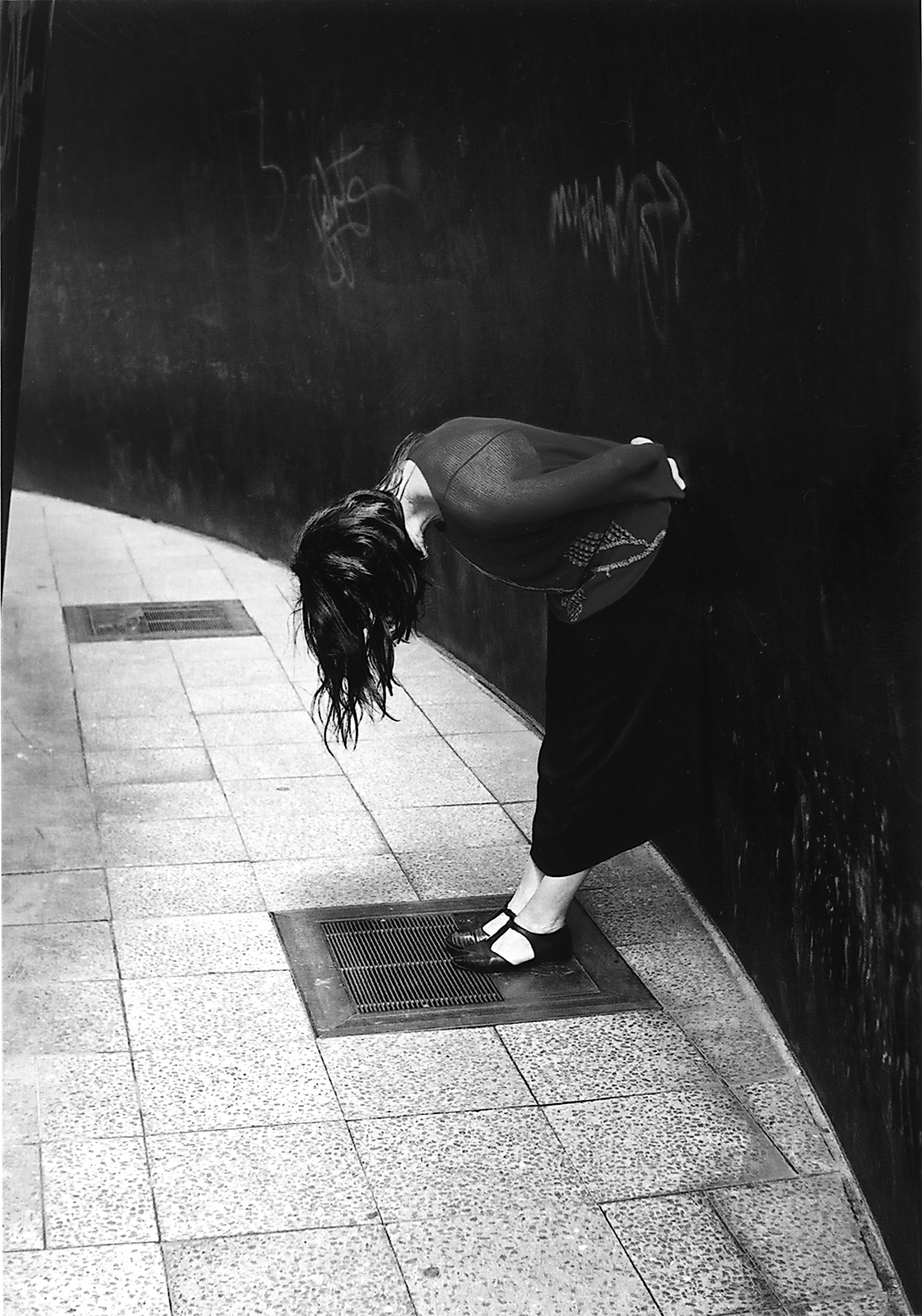 sound-light-installation transition-berlin junction at Philharmonie Berlin